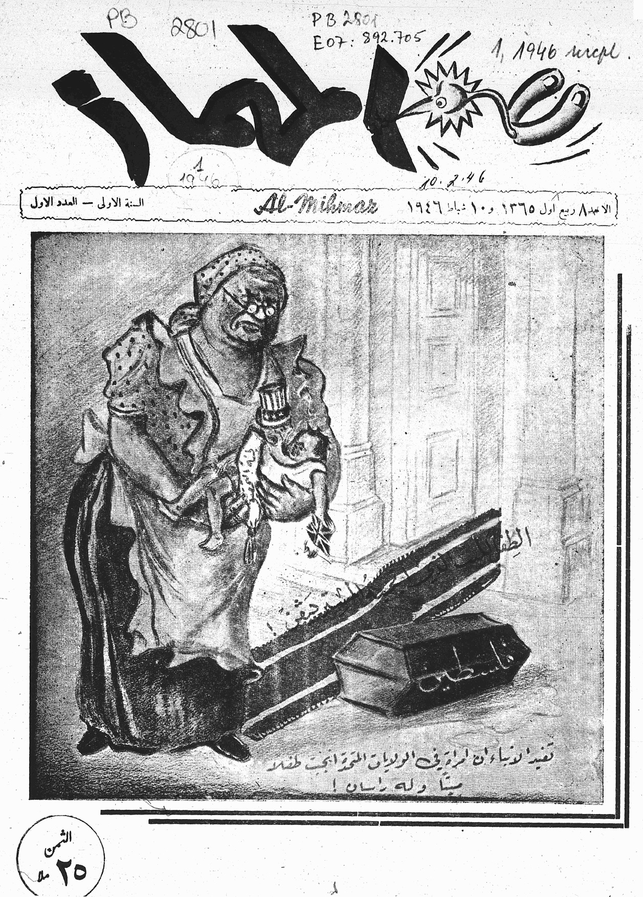 Palestinian magazine